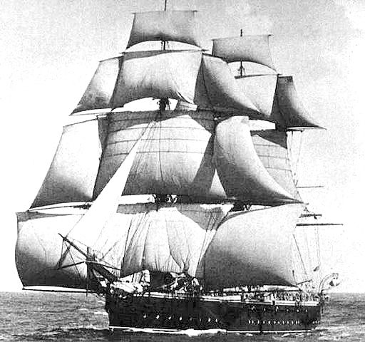 Calypso class cruiser HMS Calypso, running with the wind under full sail, with studding sails flying on fore and mainmasts. Photograph dated 1898. Imperial War Museum, London, per Harland, John (Mark Myers, ill.), Seamanship in the Age of Sail, p. 172. Conway Maritime Press, London, 1984. ISBN 0870219553. Given subject and proximity, may be official UK government photo. This UK artistic work, of which the author is unknown and cannot be ascertained by reasonable enquiry, is in the public domain because it is one of the following: A photograph, which has never previously been made available to the public (e.g. by publication or display at an exhibition) and which was taken more than 70 years ago (before 1st January 1948); or A photograph, which was made available to the public (e.g. by publication or display at an exhibition) more than 70 years ago (before 1 January 1948); or An artistic work other than a photograph (e.g. a painting), which was made available to the public (e.g. by publication or display at an exhibition) more than 70 years ago (before 1 January 1948). This tag can be used only when the author cannot be ascertained by reasonable enquiry. If you wish to rely on it, please specify in the image description the research you have carried out to find who the author was. The above is all subject to any overriding Publication right which may exist. In practice, Publication right will often override the first of the bullet points listed. Unpublished anonymous paintings remain in copyright until at least 1 January 2040. This tag does not apply to engravings or musical works. More information. You must also include a United States public domain tag to indicate why this work is in the public domain in the United States.